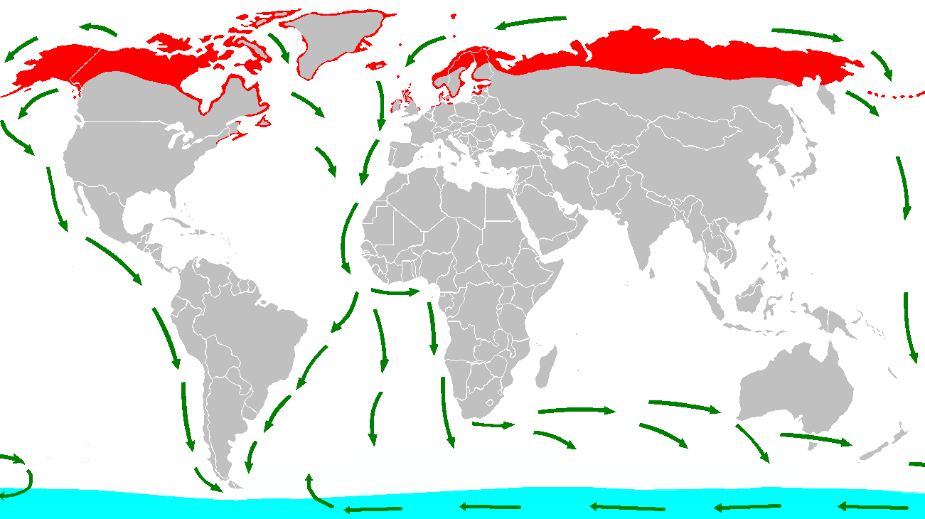 Sterna paradisaea (Arctic tern), distribution migration, red: breeding, blue: winter, green: migration